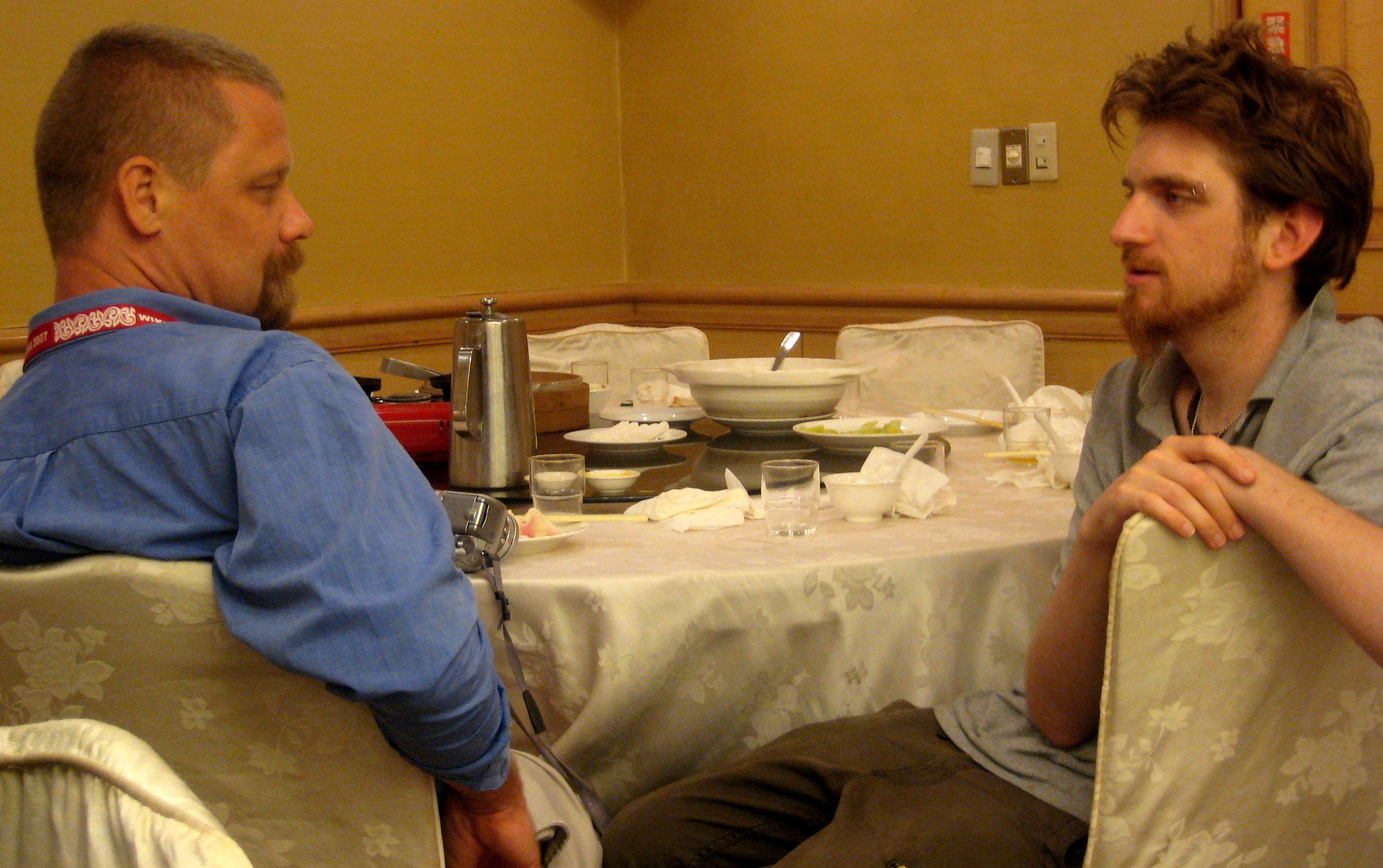 Cary Bass and Mako Hill after dinner. Alas, no record of who won the staring contest.